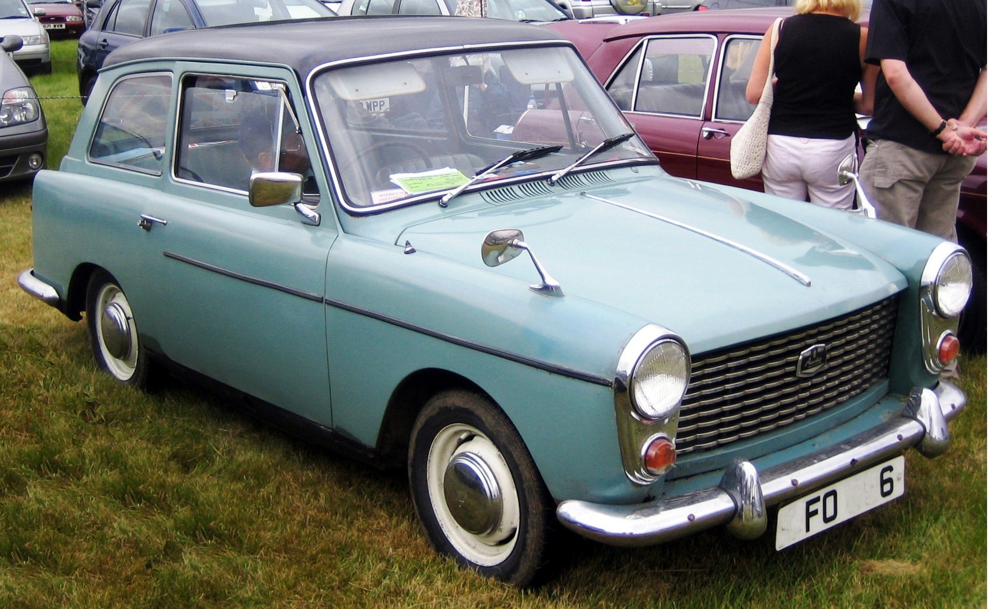 Austin A40 Farina Mk I in a field in Essex